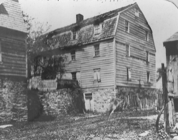 The sacred spring was accessed through the lower door in the cellar of the brethrens' house.